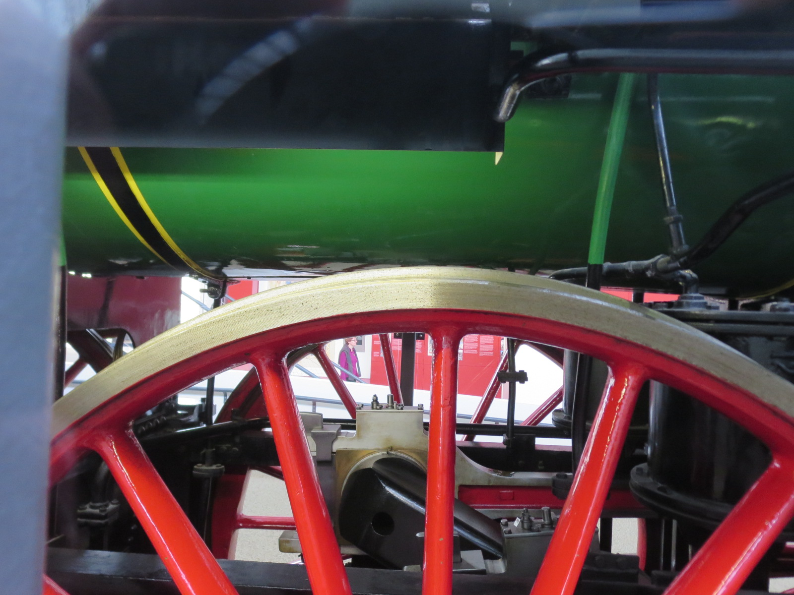 Detail of the Bavarian type S 3/6 steam locomotive number 3634 (18 451) in the transportation department of the Deutsches Museum in Munich. Through the spokes of the driving wheel one of the two internal connecting rods is to be spotted which are driven by the internal high-pressure cylinders. The driving axle is designed as a crankshaft.